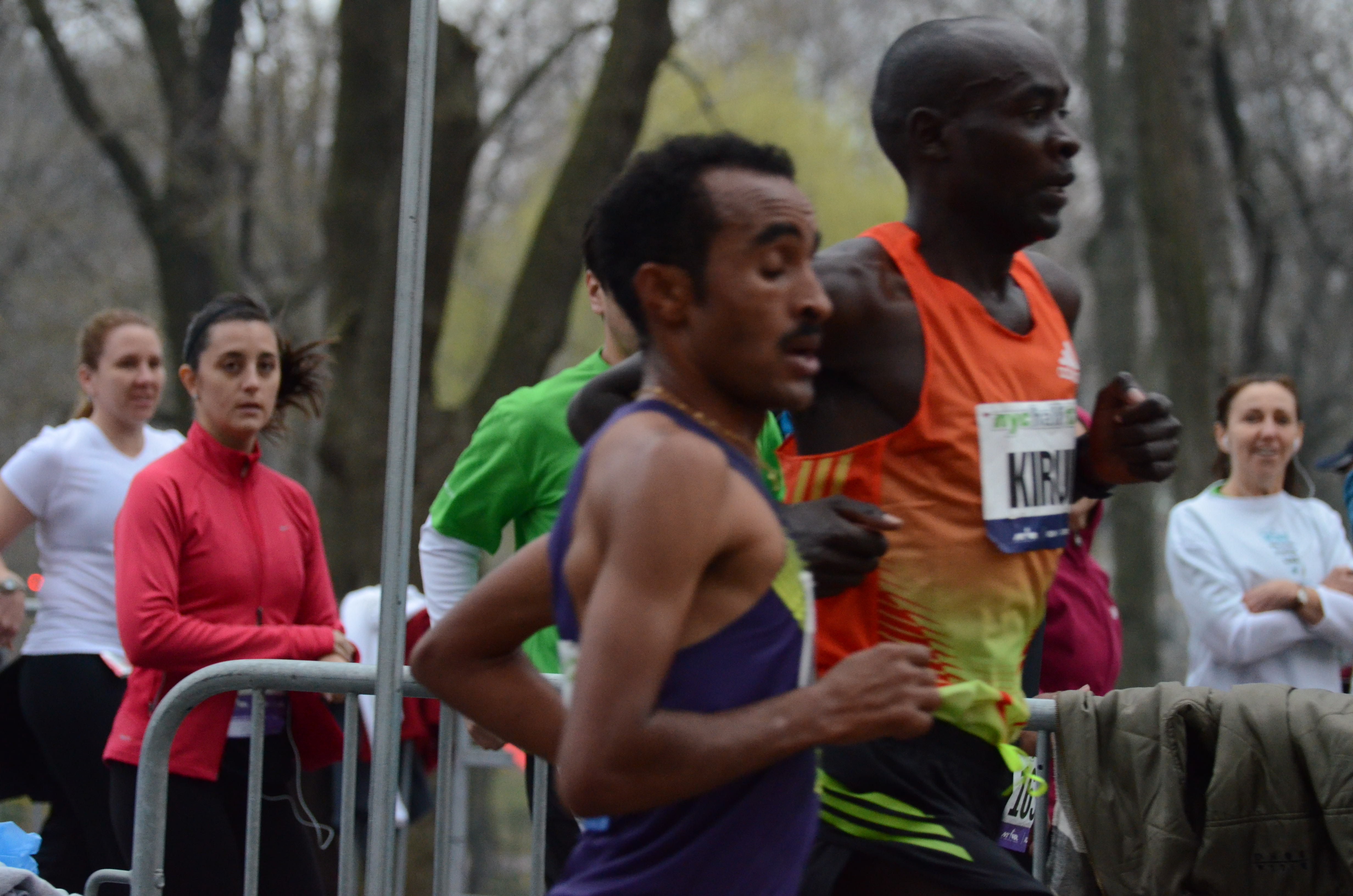 Kenyan runner Peter Kirui, the 2012 NYC Half Marathon Winner, overtaking Ethiopia's Deriba Merga in Central Park near the 4-mile mark